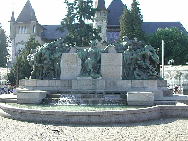 Welttelegraphendenkmal beim Helvetiaplatz in Bern Source: photo uploaded by User:RicciSpeziari. Photographer: Riccardo Speziari